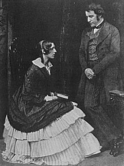 itle Portrait photograph of Mr. and Mrs. James Stuart-Wortley Contributor Names Genthe, Arnold, 1869-1942, photographer Hill, David Octavius, 1802-1870, photographer Adamson, Robert, 1821-1848, photographer Created / Published between 1896 and 1942; from a print. Format Headings Calotypes--Reproductions. Group portraits--Reproductions. Lantern slides. Portrait photographs--Reproductions. Notes - Title devised. Lantern slide reproduction by Arnold Genthe of a calotype by David Octavius Hill and Robert Adamson. - Purchase; Genthe Estate; 1942 or 1943. Medium 1 slide : lantern ; 4 x 5 in. or smaller. Call Number/Physical Location LC-G4085- 0441 [P&P]